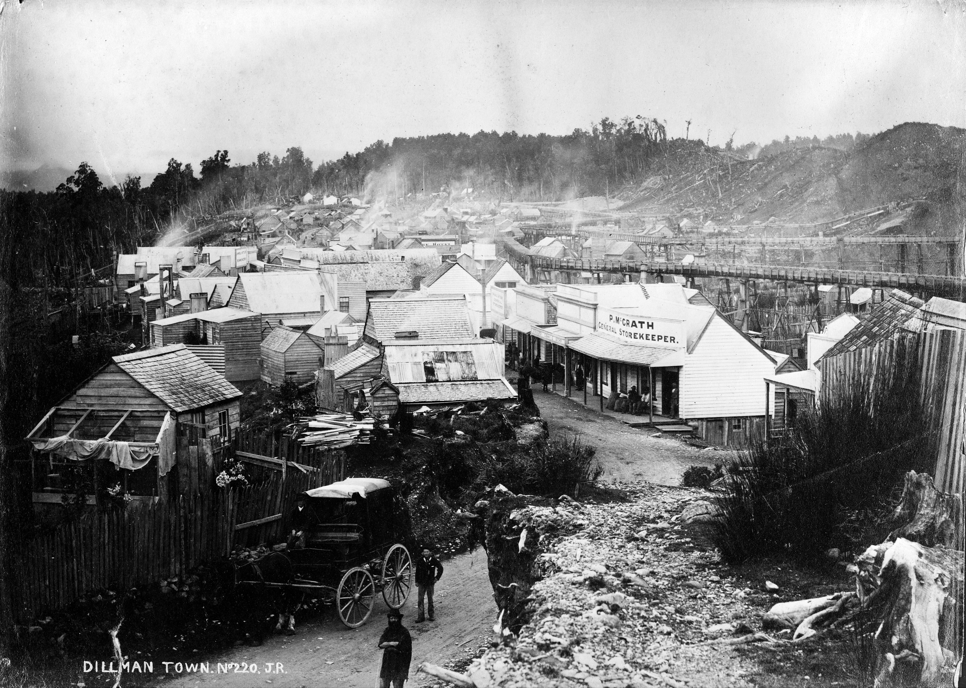 Photographer: James Ring (1856-1939)[1] Dillmanstown, West Coast, New Zealand Original negative Reference No. 1/2-044217-F Photographic Archive, Alexander Turnbull Library, National Library of New Zealand Find out more about this image from the Alexander Turnbull Library.